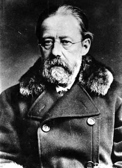 Photograph of Bedrich Smetana, composer, 1824-1884, in old age